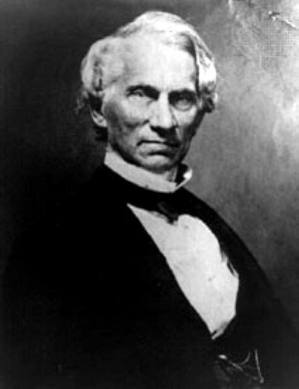 Portrait of Christopher G. Memminger, (1803-1888), Secretary of Treasury Confederate States of America.